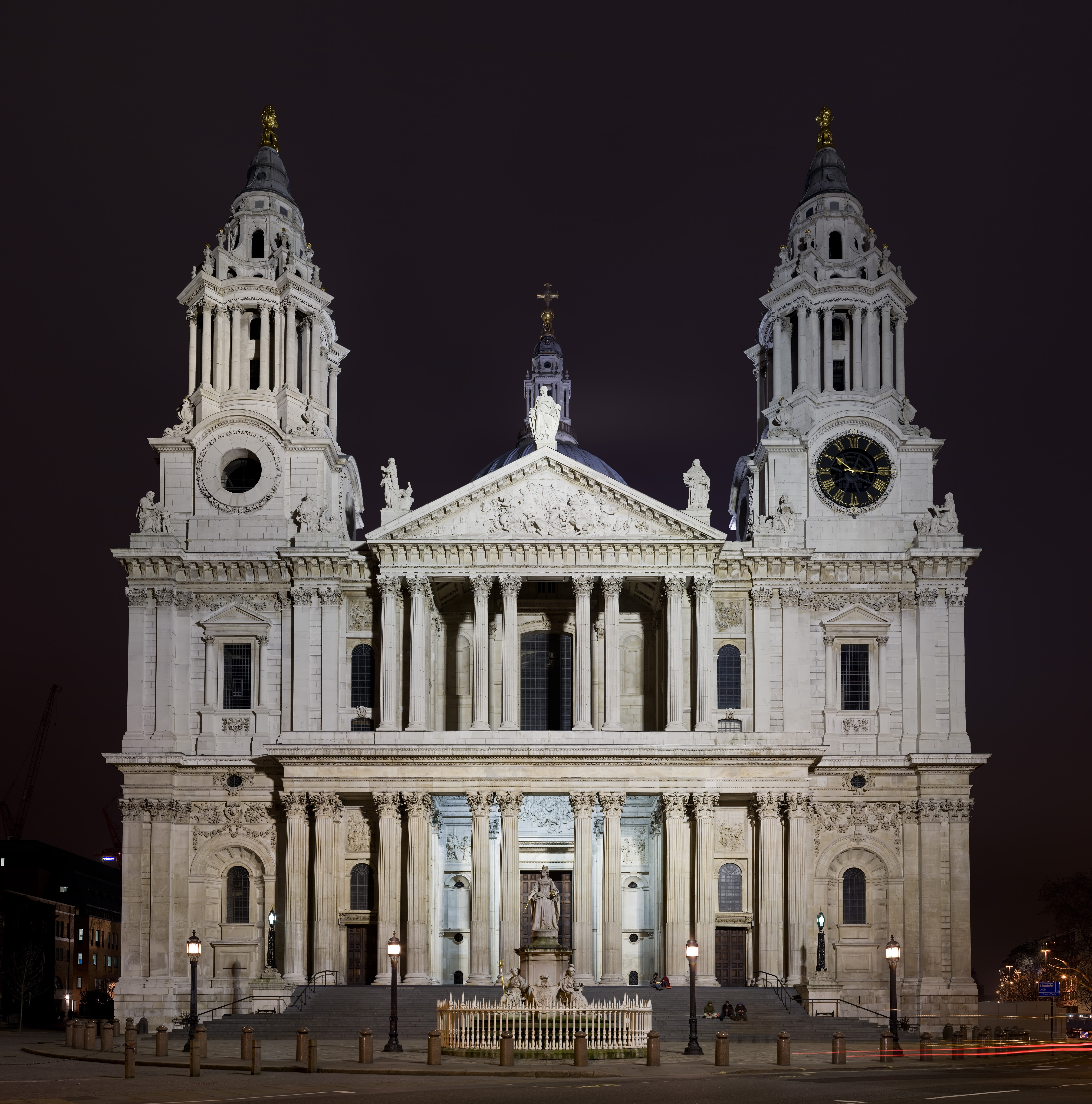 A 5 x 5 segment mosaic image of St Paul's Cathedral at night. Taken by myself with a Canon 5D and 100mm f/2.8 lens.